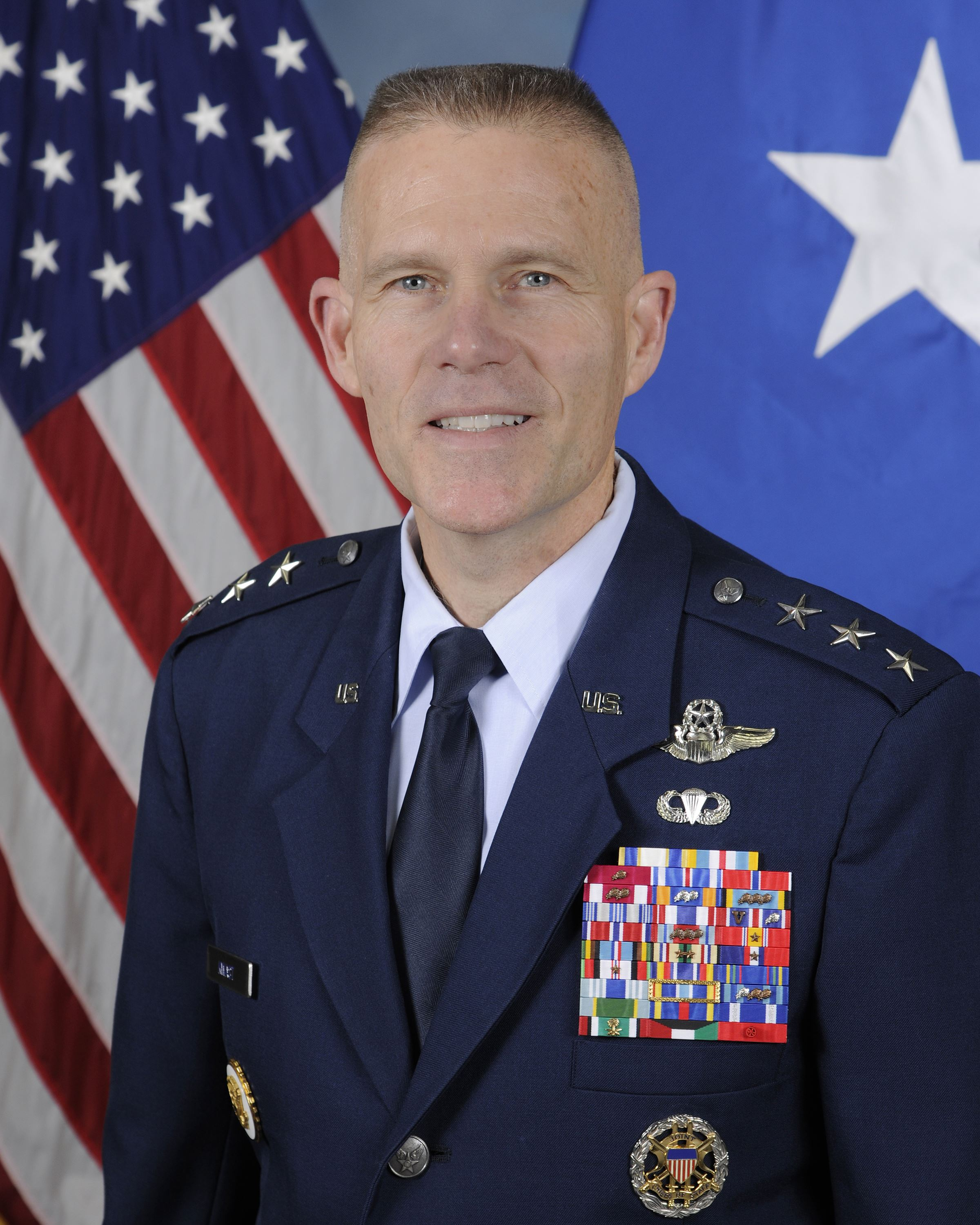 Newest portrait